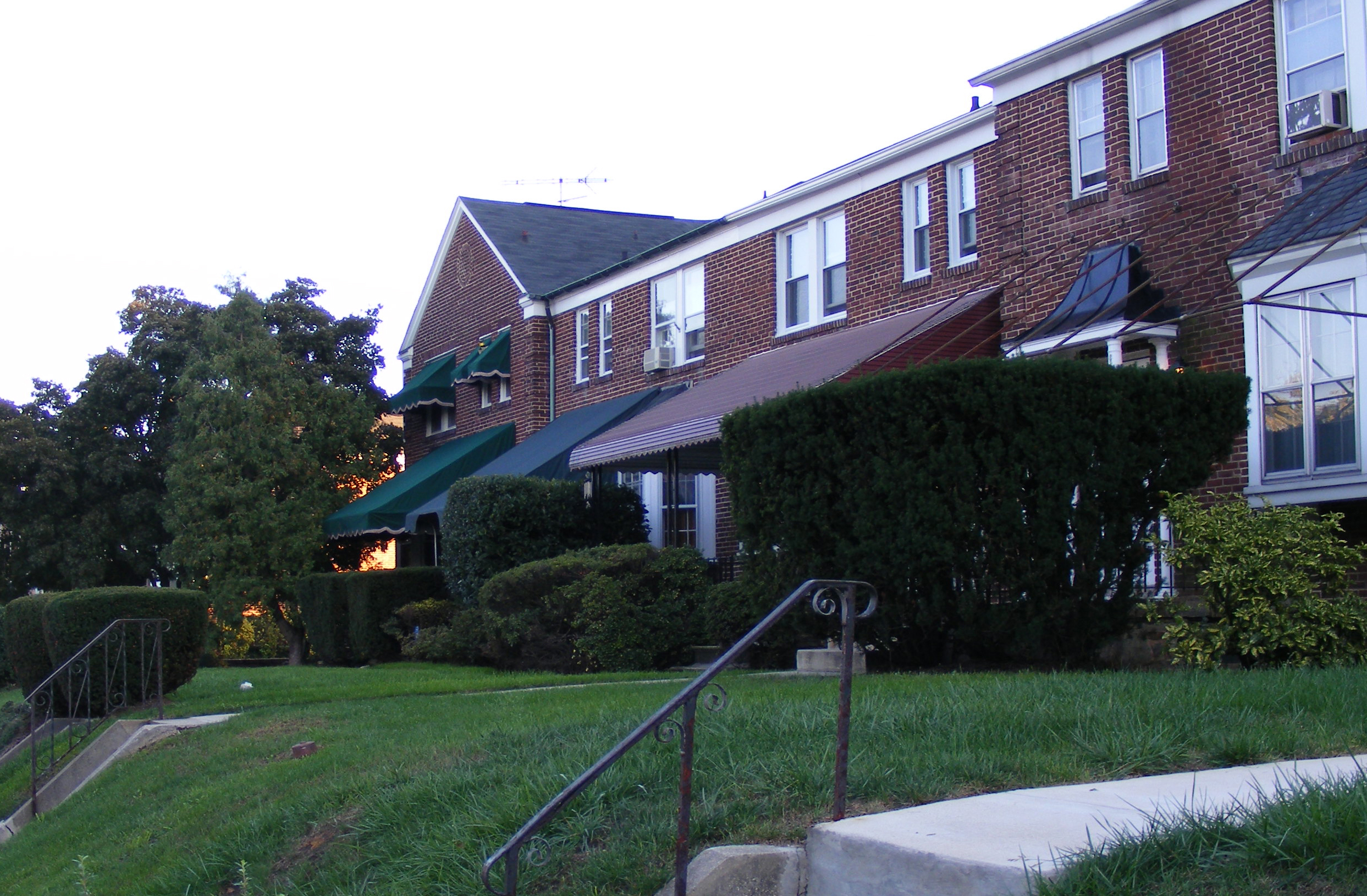 Houses in the Hillen neighborhood of Baltimore, Maryland, United States.